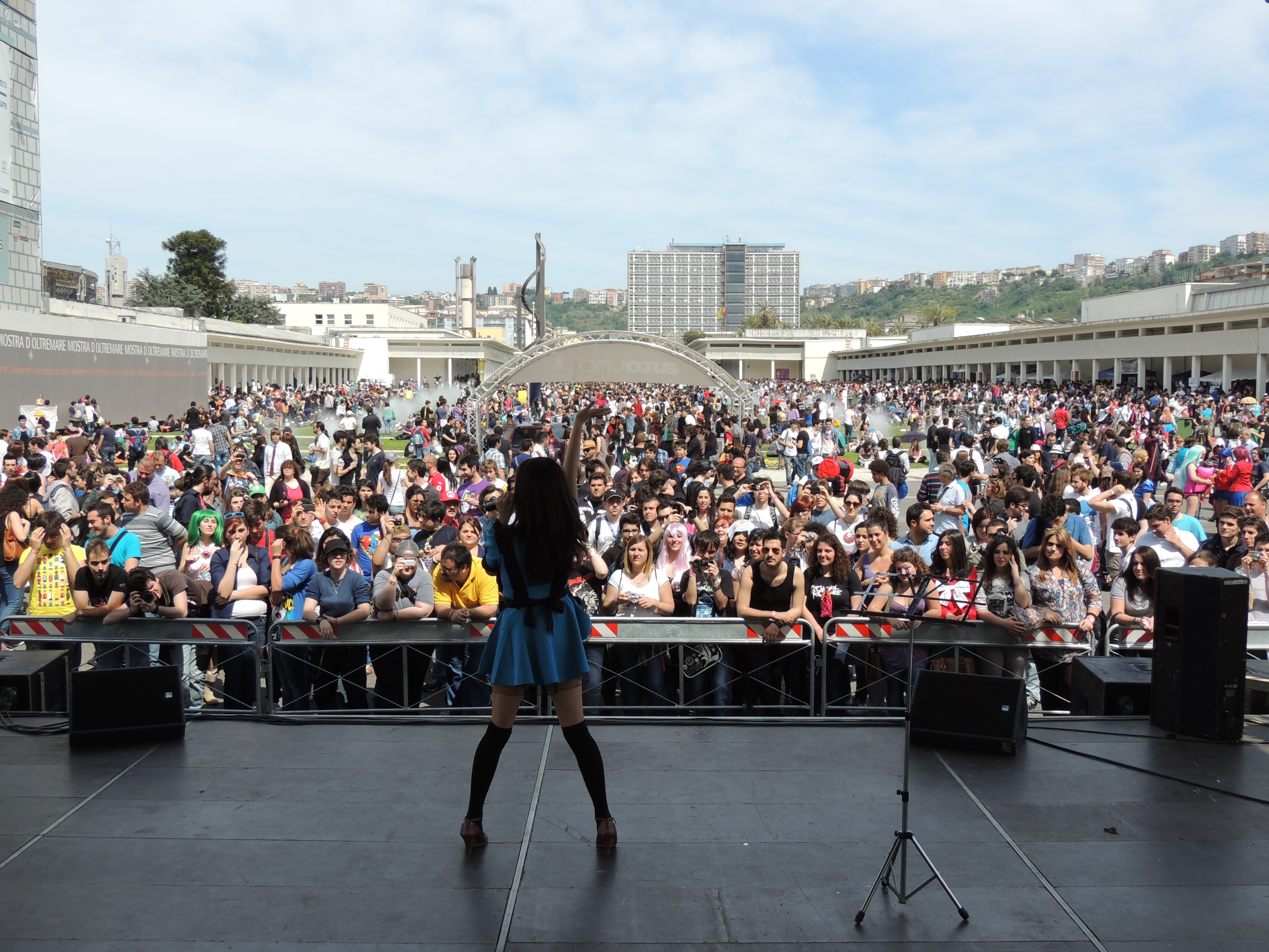 concert at Naples Comicon 2012